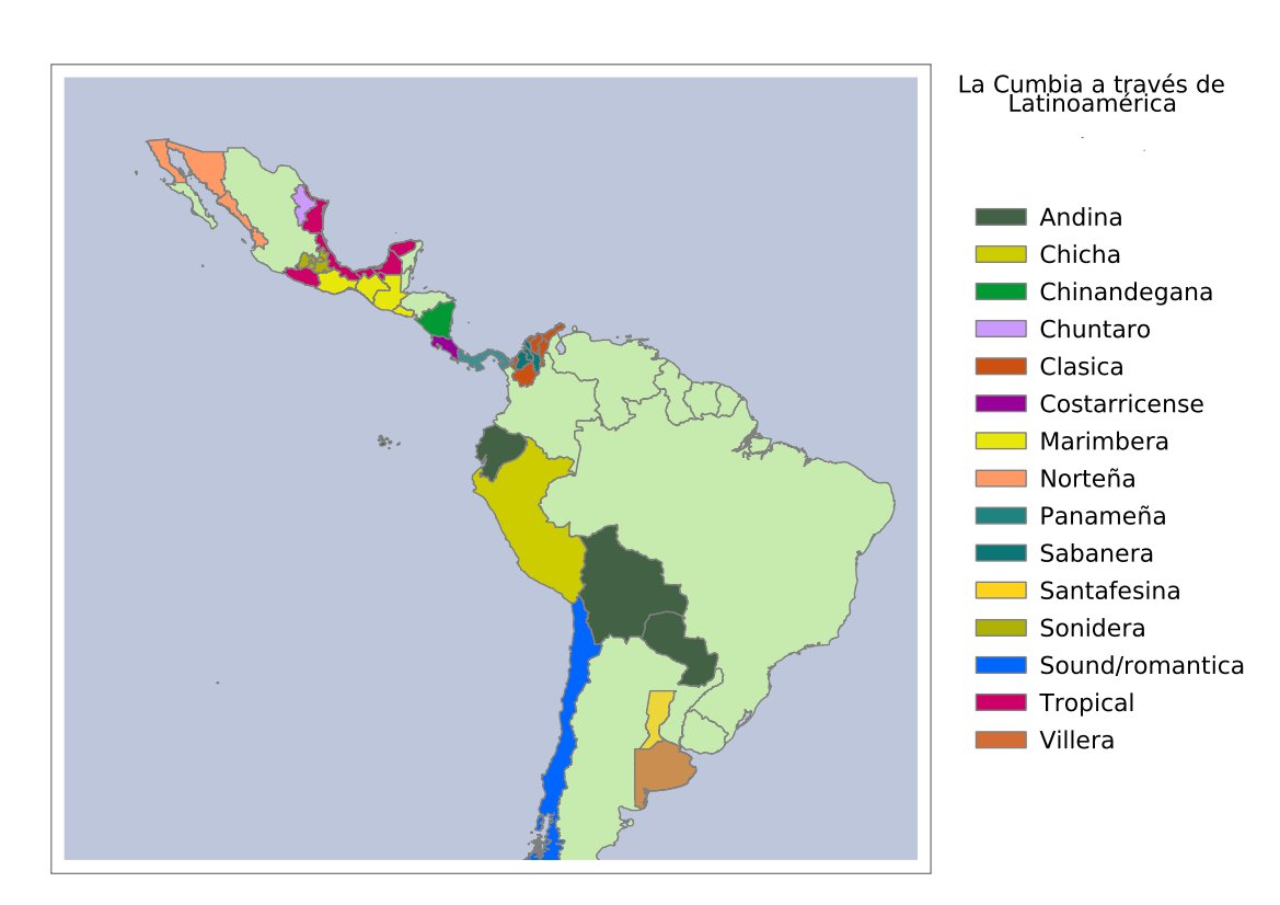 The main Cumbia regions accross the continent